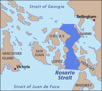 This is a locator map of Rosario Strait.